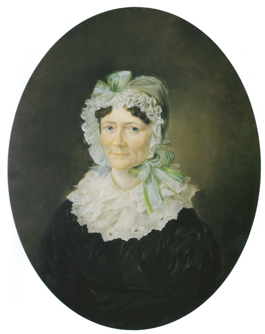 The artists mother, wife of Carl Stoltenberg.